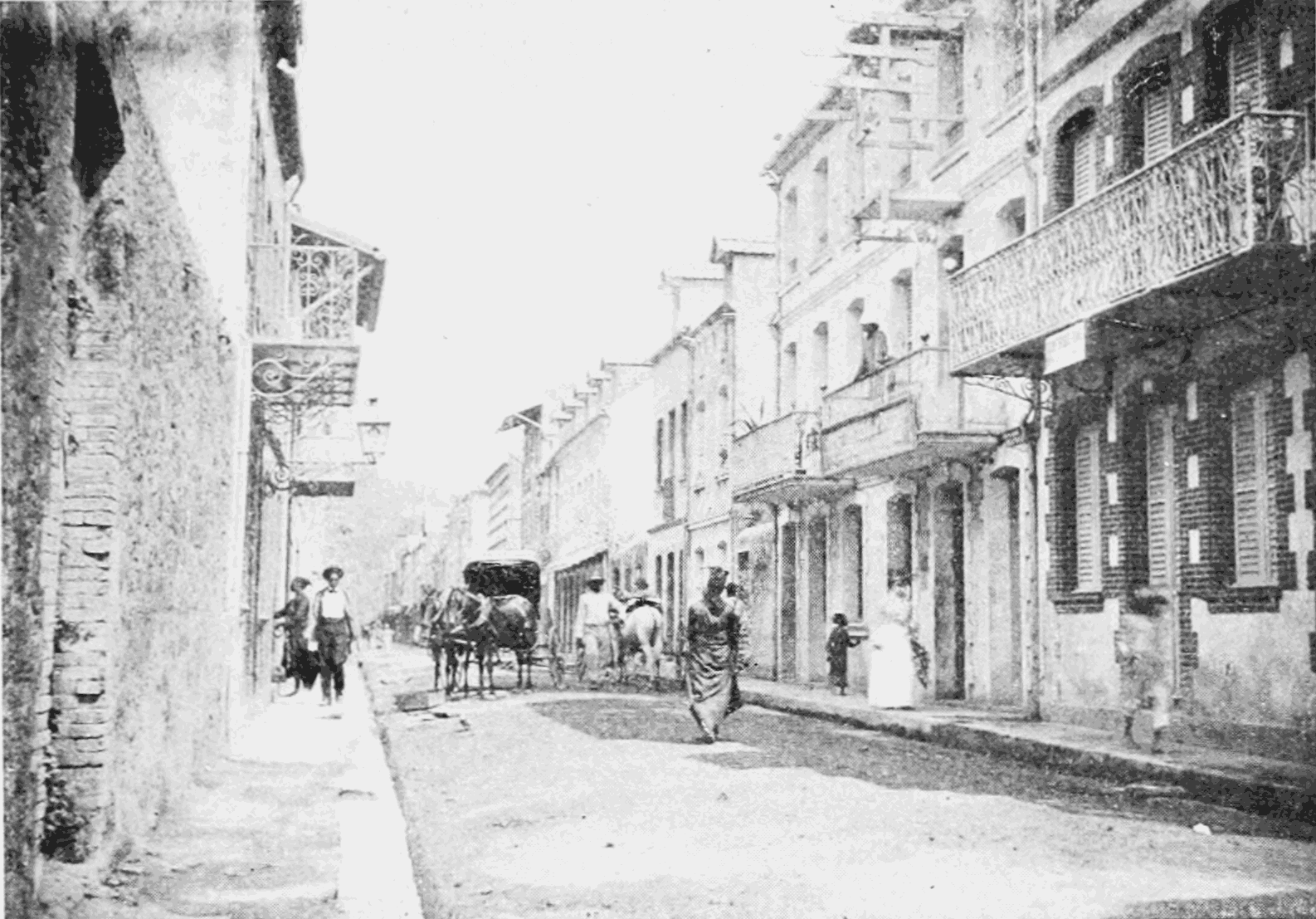 St Pierre street in Martinique before the eruption